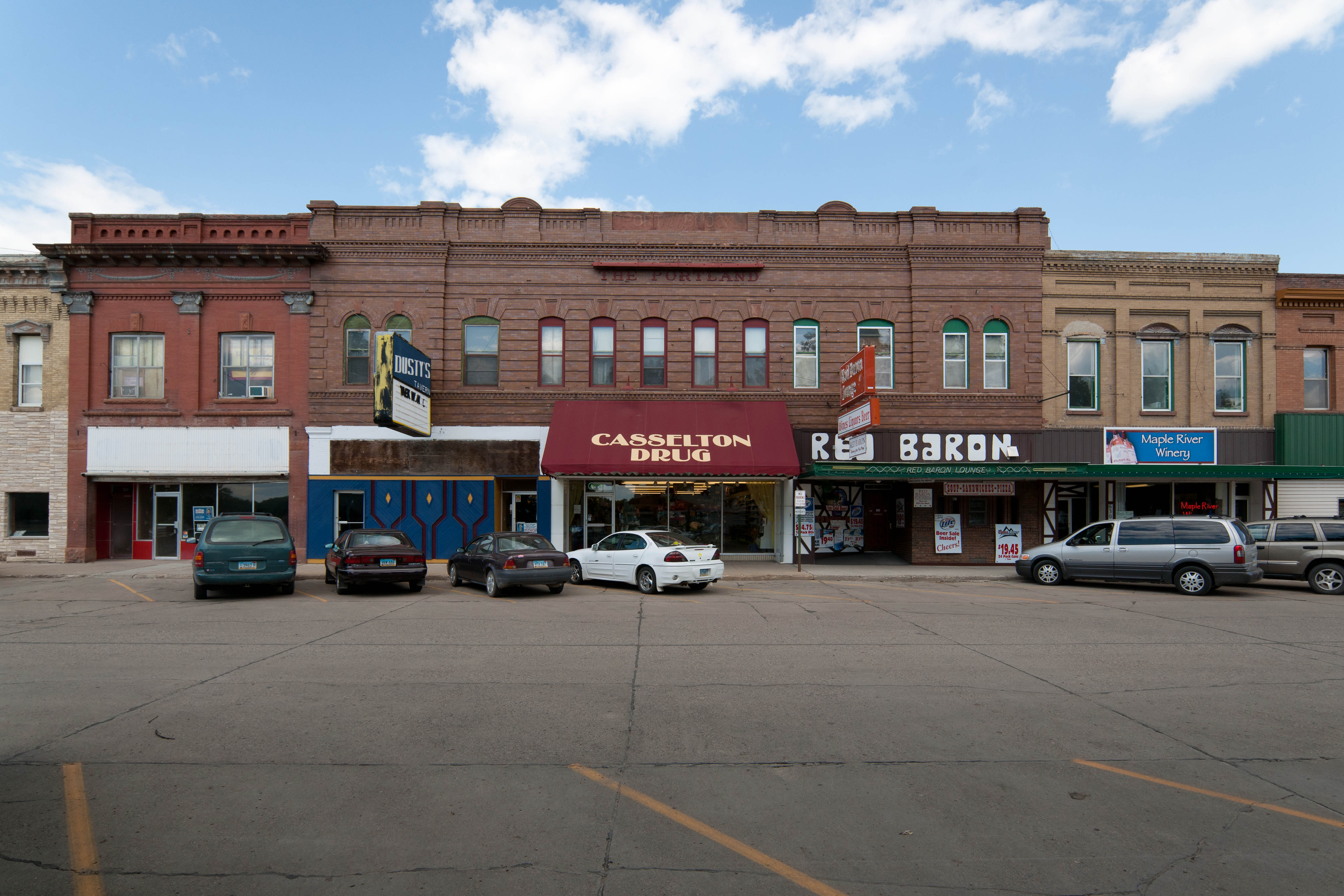 Buildings in the 600 block of Front Street, within the NRHP-listed Casselton Commercial Historic District in Casselton, North Dakota. At center is the Port Block/Portland Hotel.